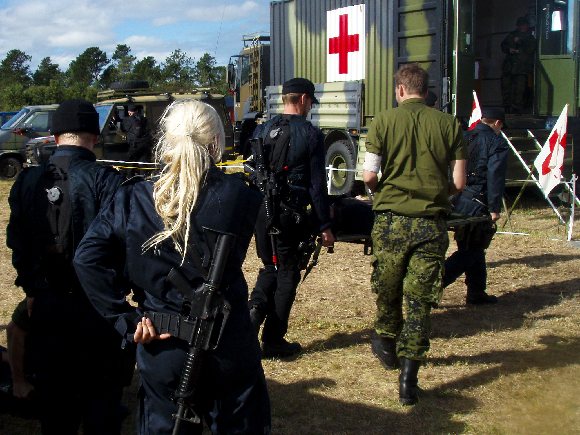 Danish Army and Navy personel at a Disaster Relief Operation Exercise in 2007.